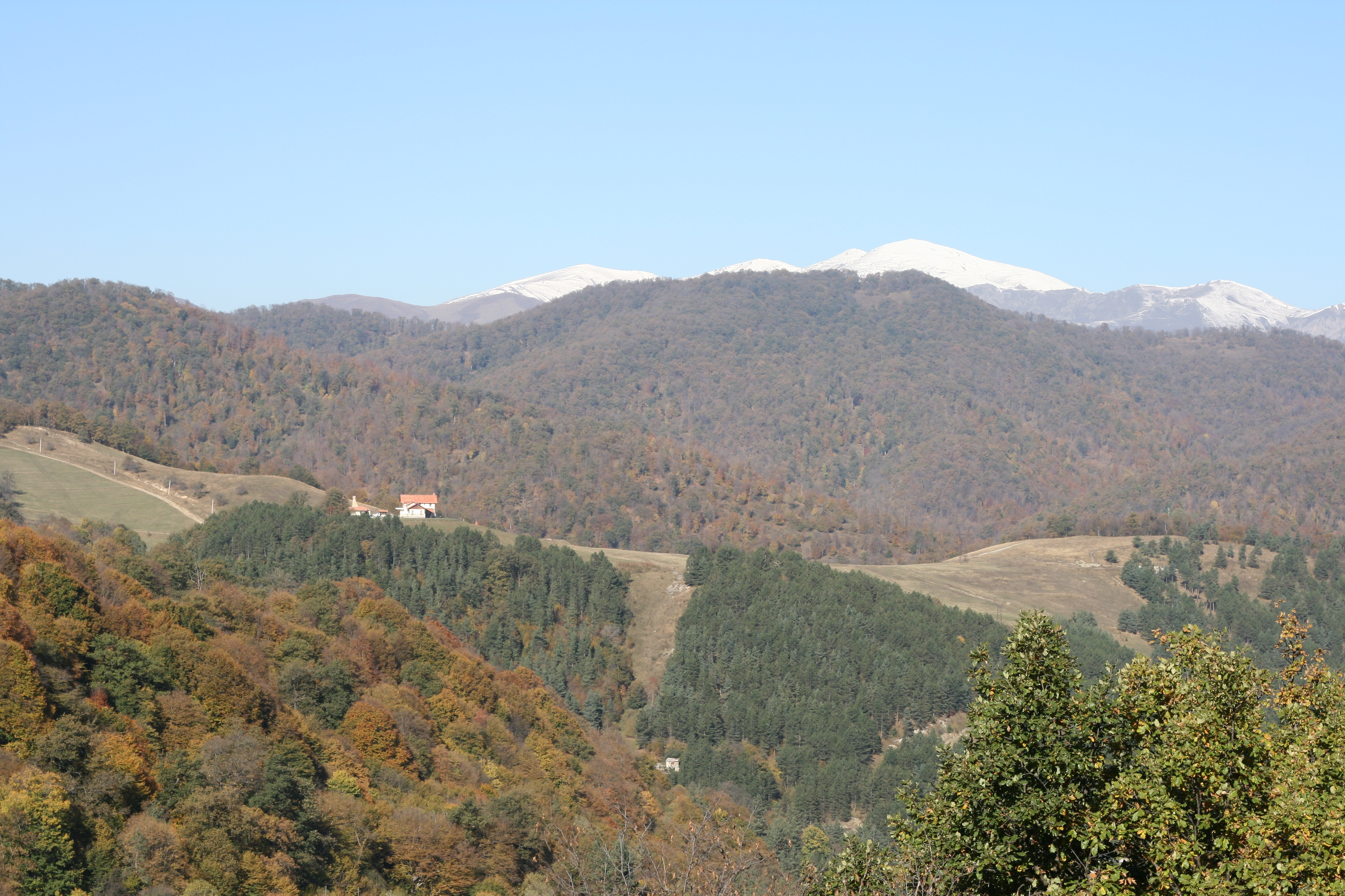 View of Middle Caucasus Mountains of Armenia, Dilijan